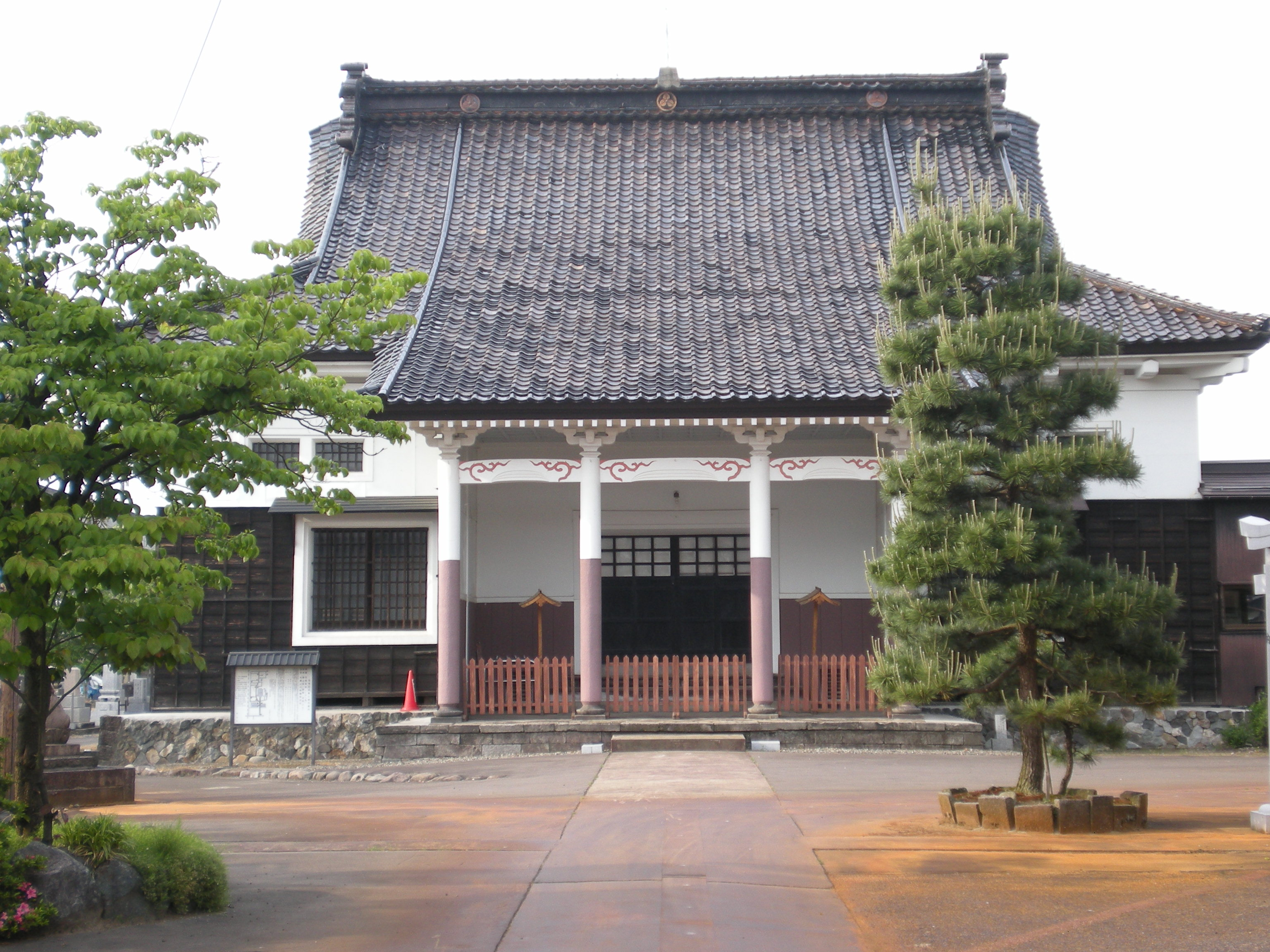 Eiryo-ji_temple_in_Nagaoka-shi_Japan